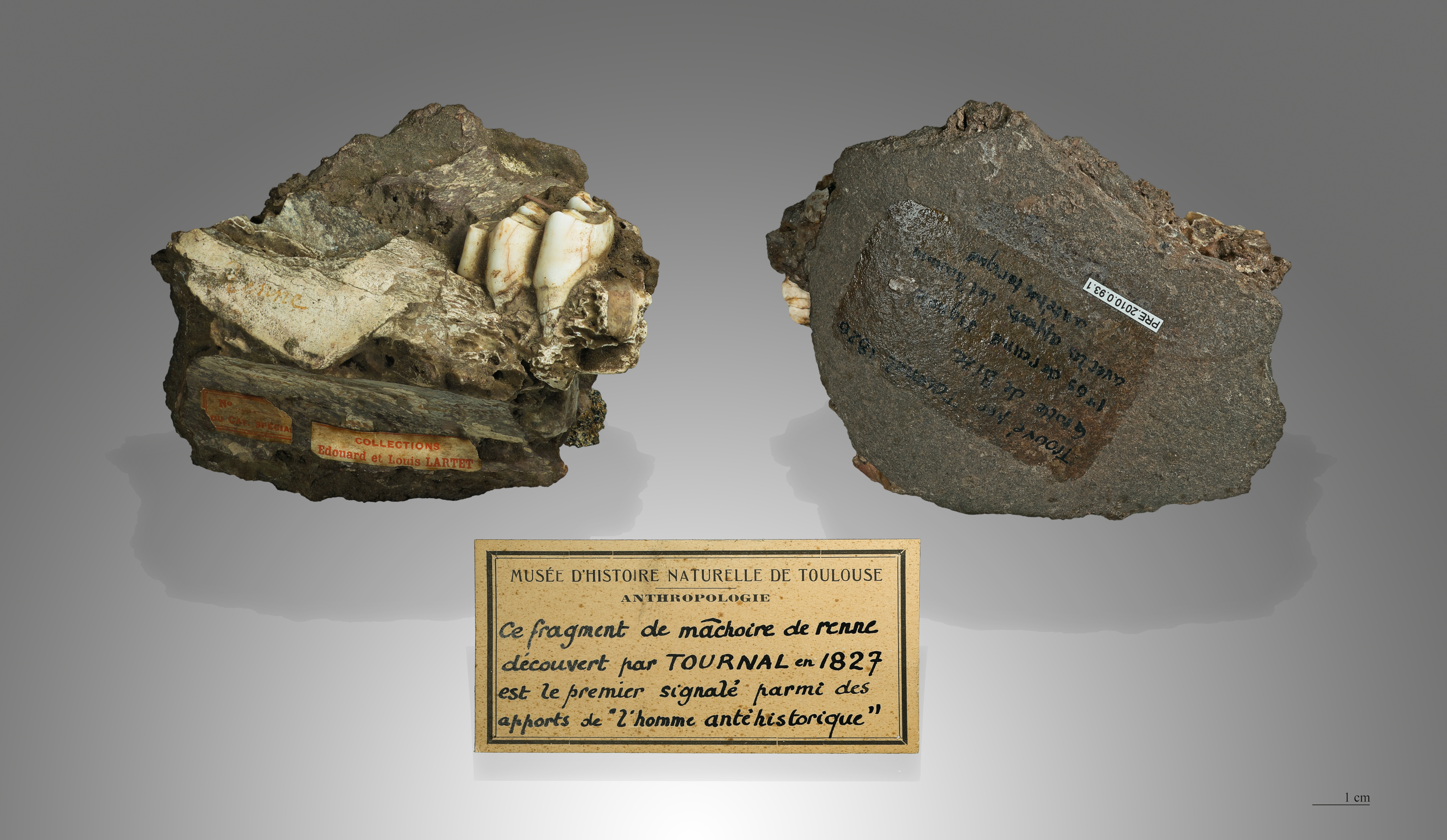 Reindeer jaws found by Paul Tournal, available at Édouard Lartet. Autograph of Edouard Lartet at the back: "Found by Tournal 1826 Bize Cave first reindeer bones with the reported contributions of prehistoric man”. Stage : Middle Paleolithic (to – 300 000 Ma from - 30 000 years Before the Current Era) Locality: Caves Las Fonts, Bize, Aude, France Former collection of Edouard et Louis Lartet. Different views of the same specimen.